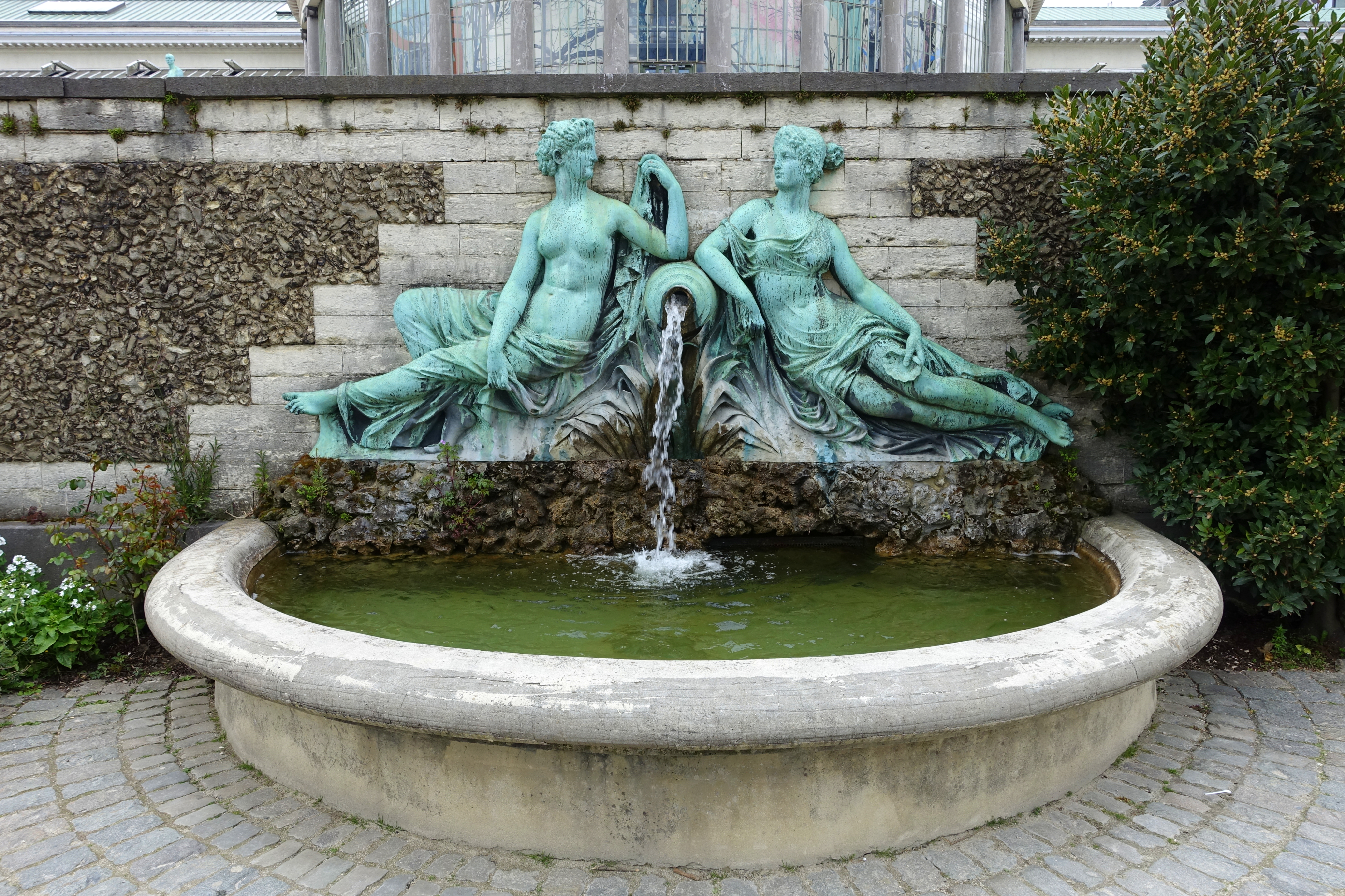 Two nymphs surrounding a source, by Albert Hambresin - Botanical Garden of Brussels - Brussels, Belgium. This work is in the public domain because the sculptor died more than 70 years ago.